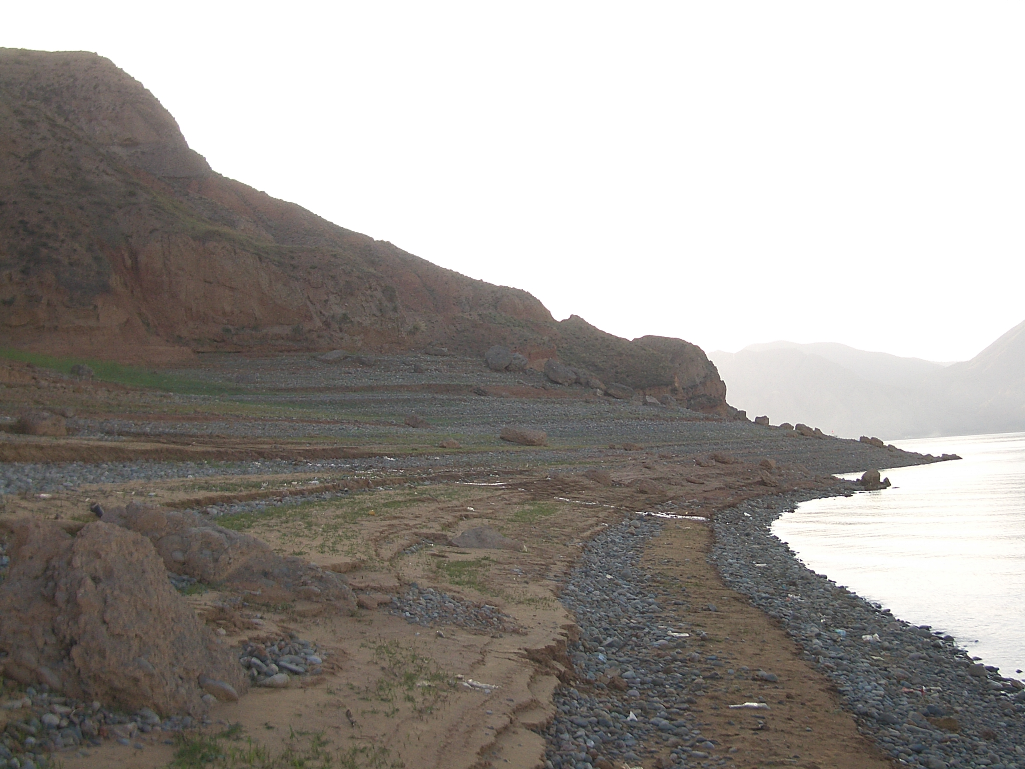 The shoreline of Liujiaxia Reservoir in the Daxia River Bay, a few km south of Lianhua Tai dock (Linxia County)